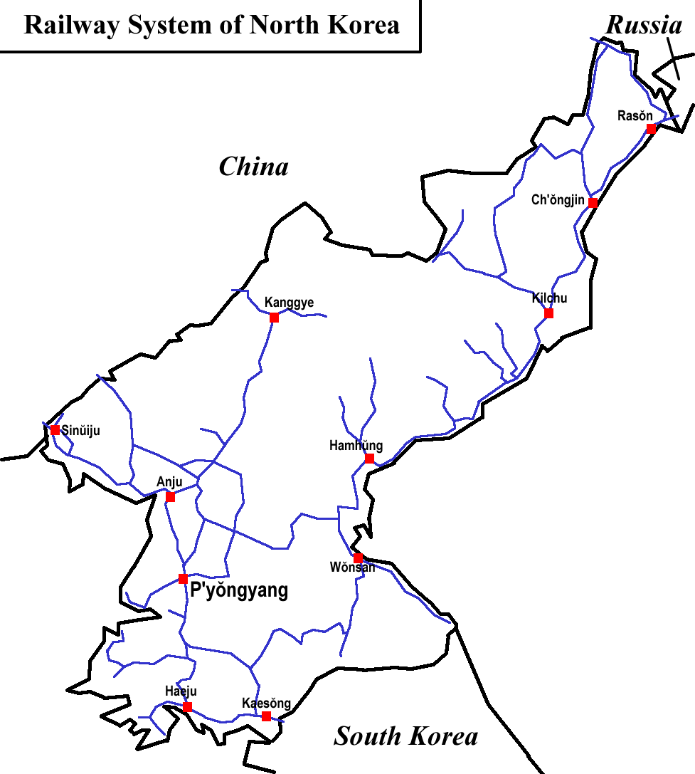 railway system of North Korea